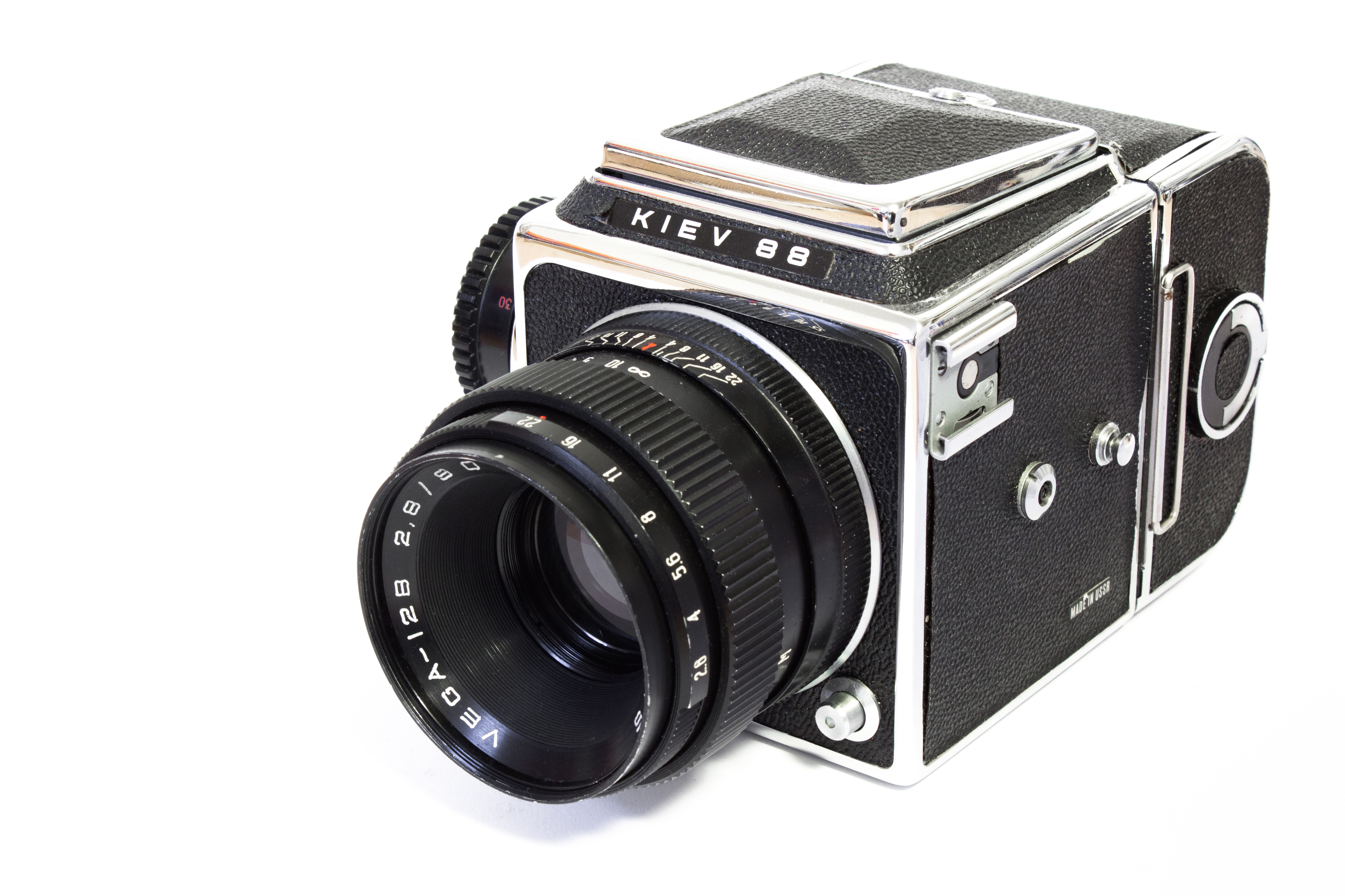 Home studio shot of a russian medium format 6x6 camera with a vega 90mm f2.8 lens